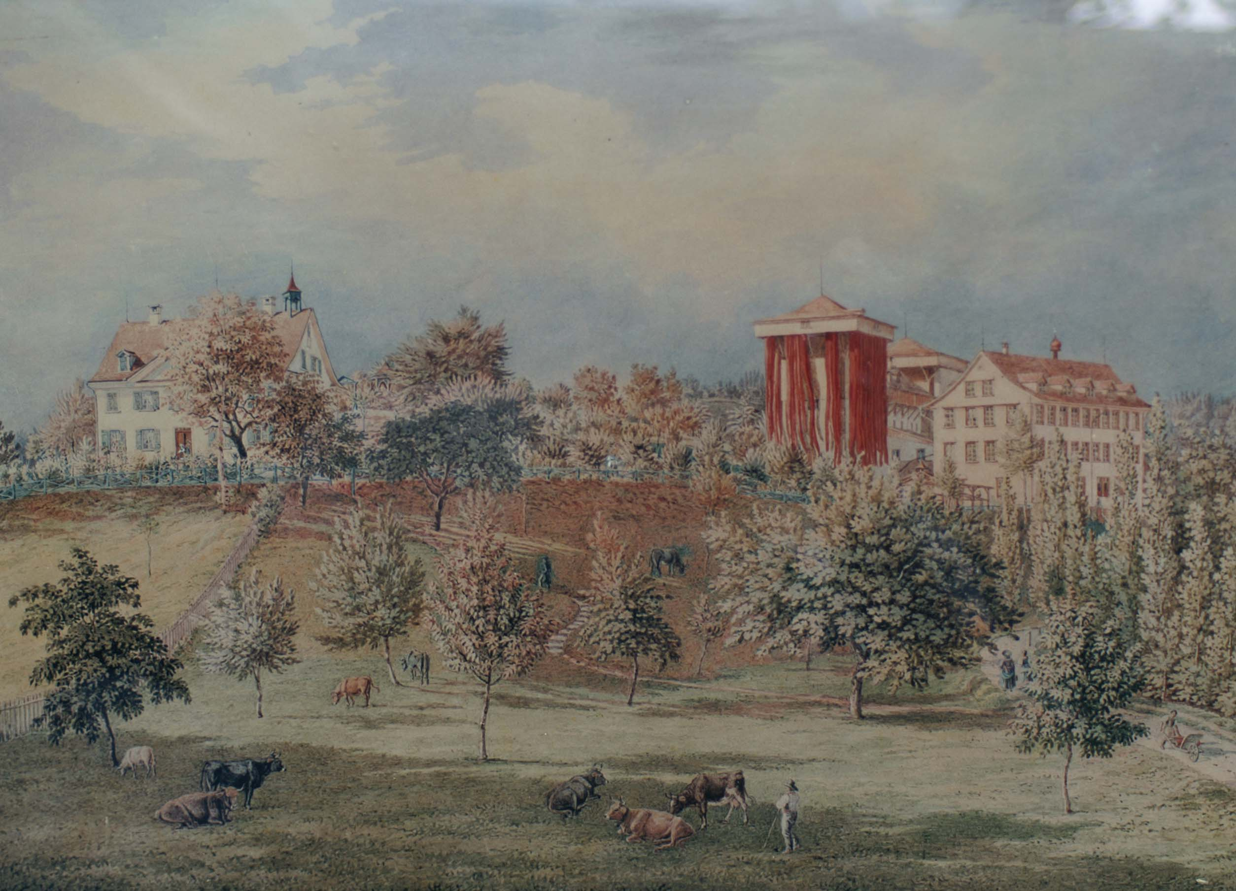 Turkey Red Printing Manufacture J. J. Kelly, Gossau, Switzerland, about 1850